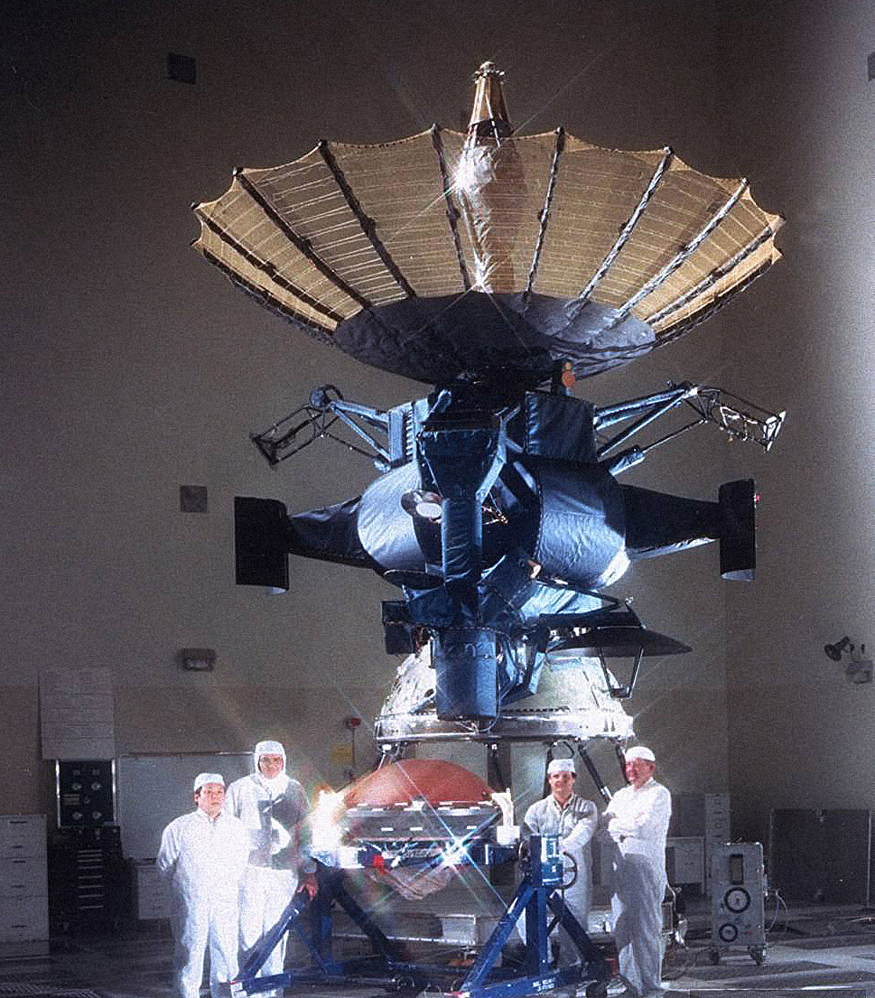 Engineers at NASA's Jet Propulsion Laboratory pose with the completed Galileo orbiter and probe. The spacecraft would later be modified as a result of the 1986 Challenger disaster.